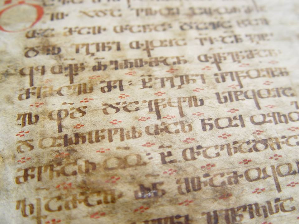 Asomtavruli of X century